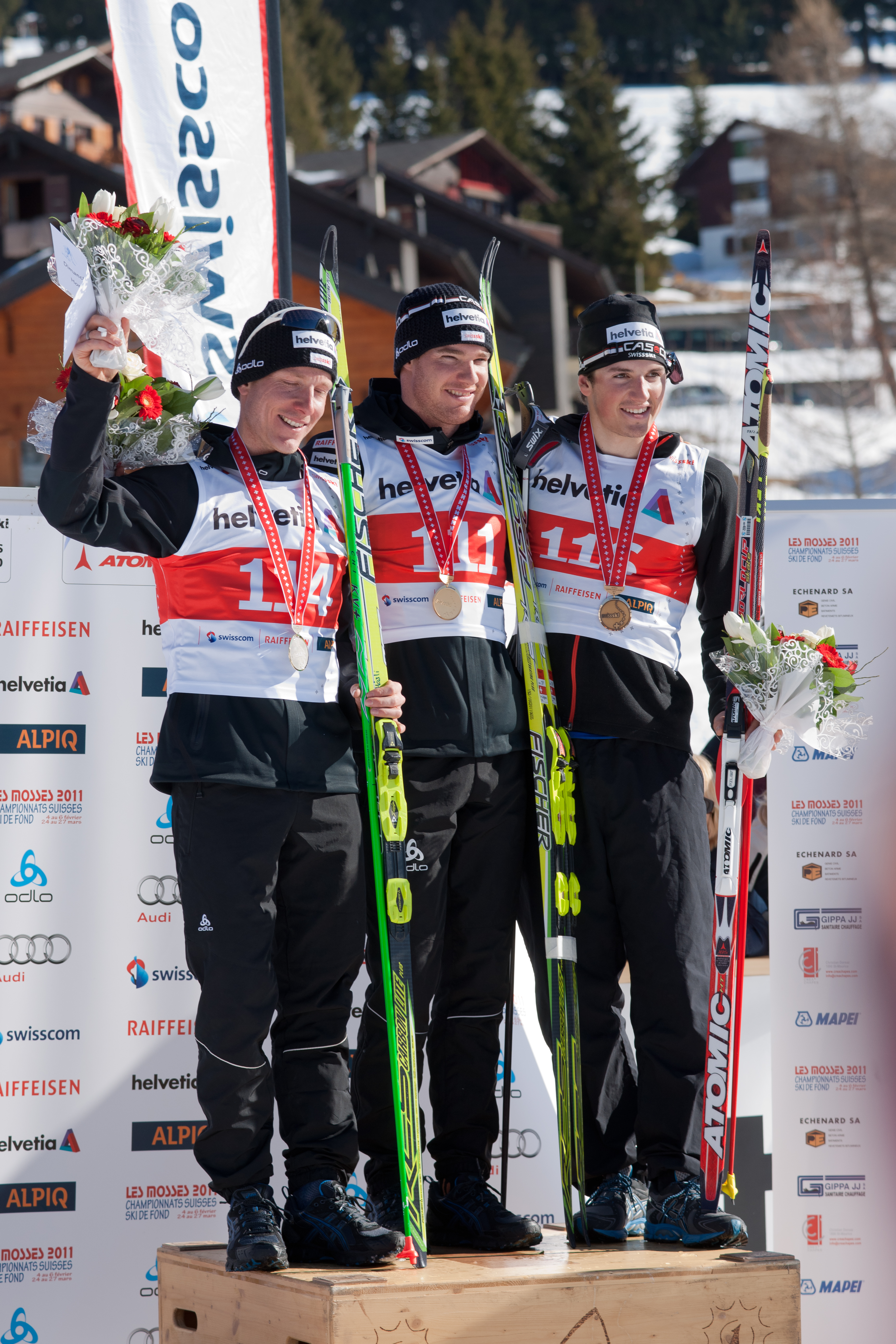 2011 Swiss cross-country skiing championships - Duathlon. From left to right: Marco Mühlematter, Dario Cologna, Jonas Baumann.